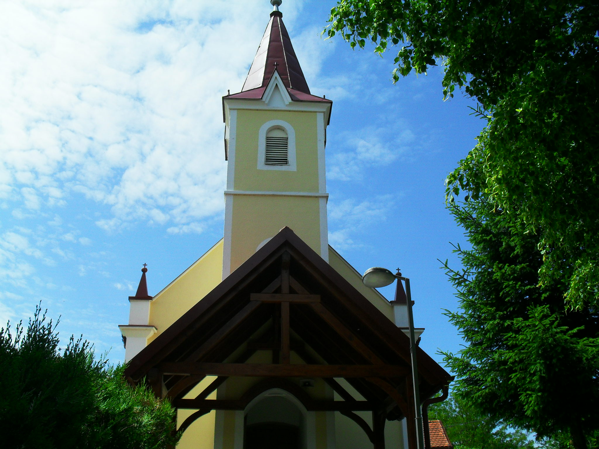 Chapel of the Holy Virgin of Scapulir in Štrukovec, Međimurje Croatia